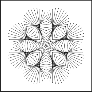 Stringart: Flower patten filled sewingRomână: Grafică brodată: Model de floare cu cusăutură plină